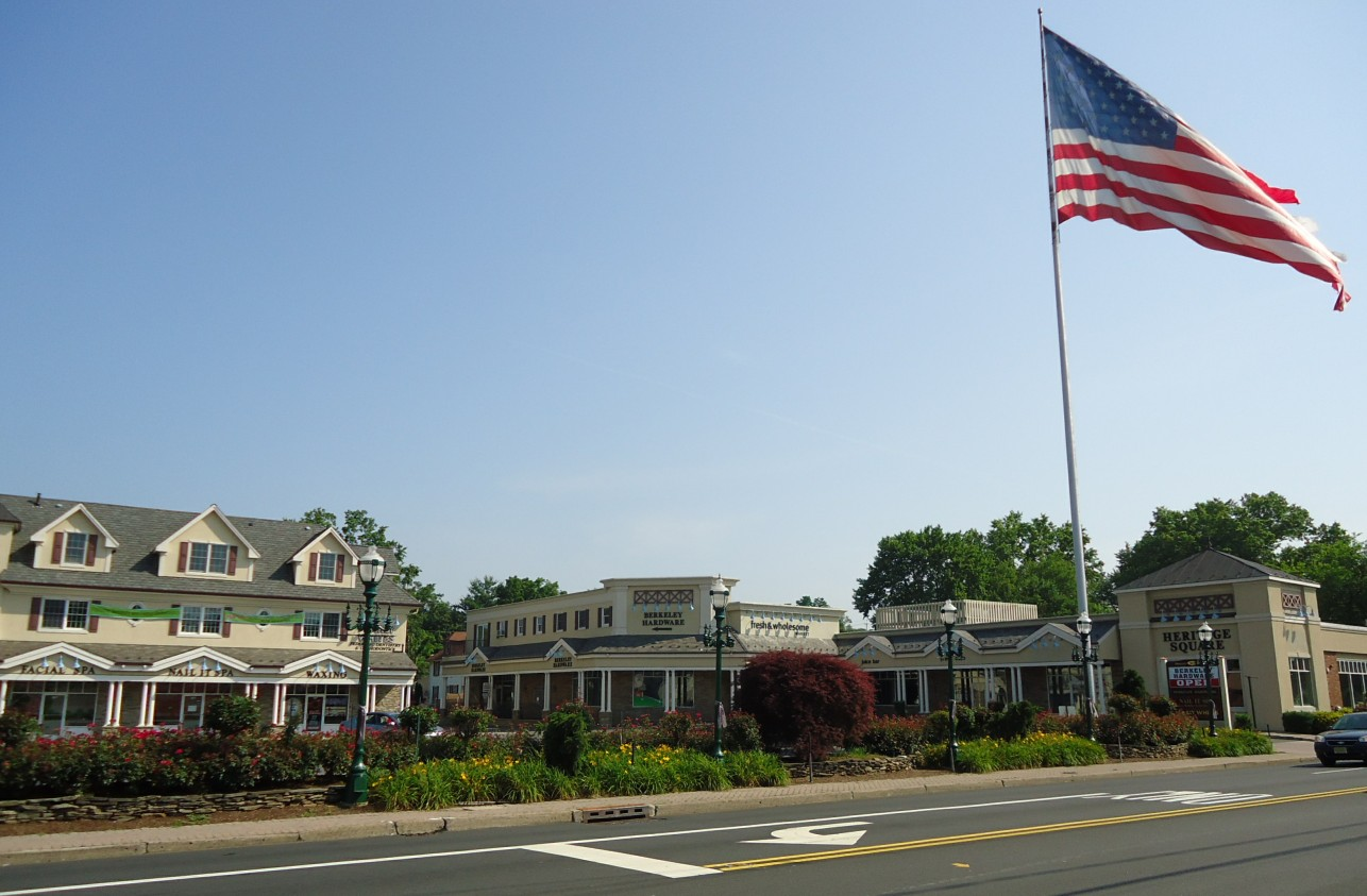 A scene in Berkeley Heights, New Jersey. Heritage Square Shopping Center, near the train station with a giant American flag.